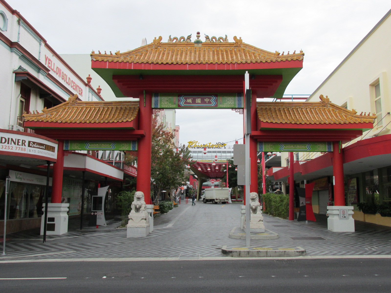 Entrance to Chinatown in Fortitude Valley, Queensland